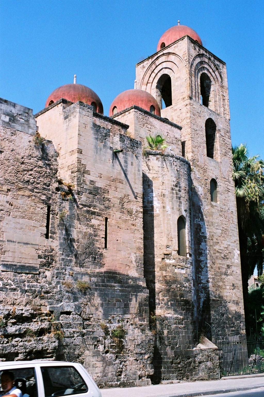 San Giovanni degli Eremiti, Palermo Apside and tower seen from the street